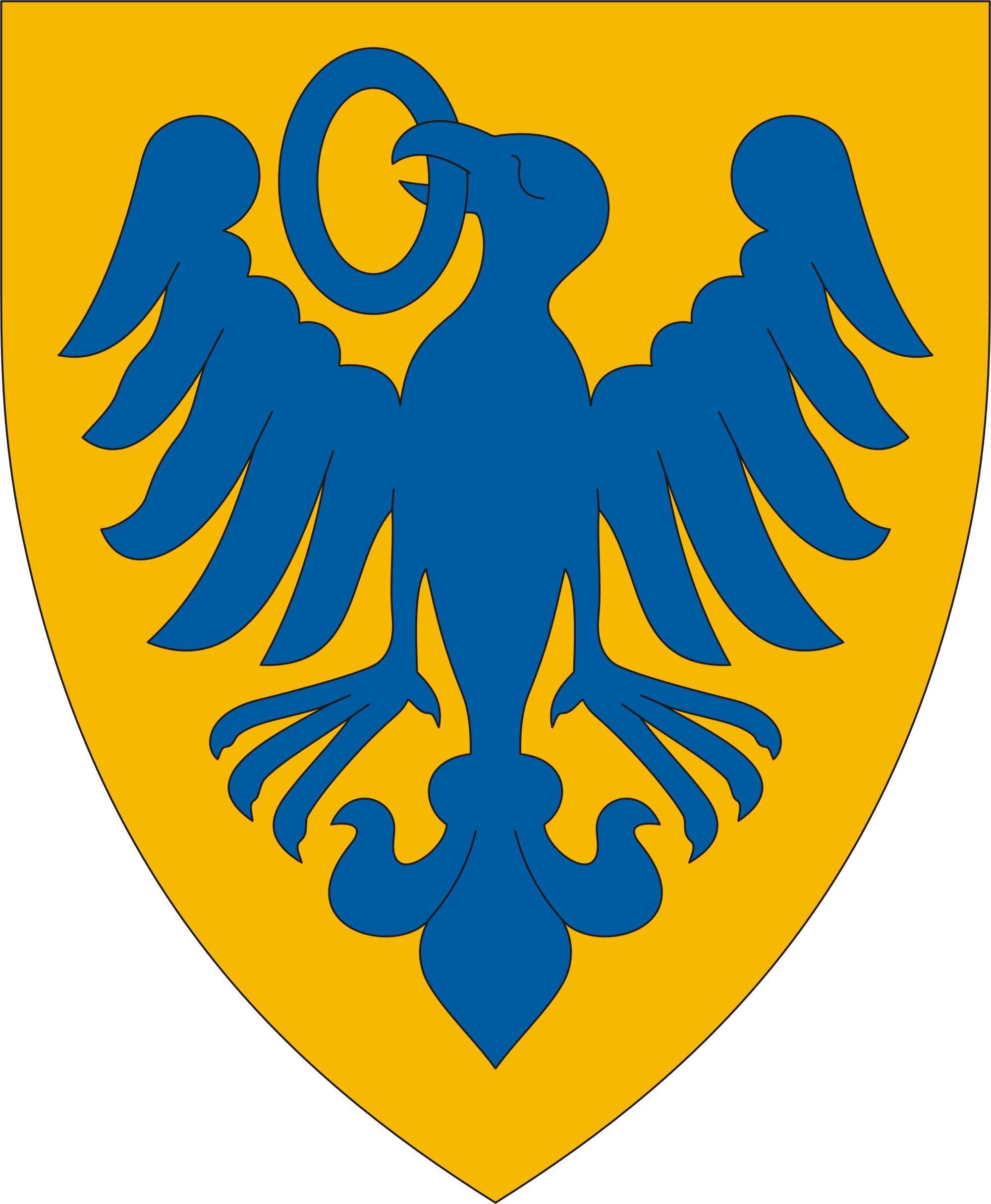 Coat of arms of Karácsond, Hungary